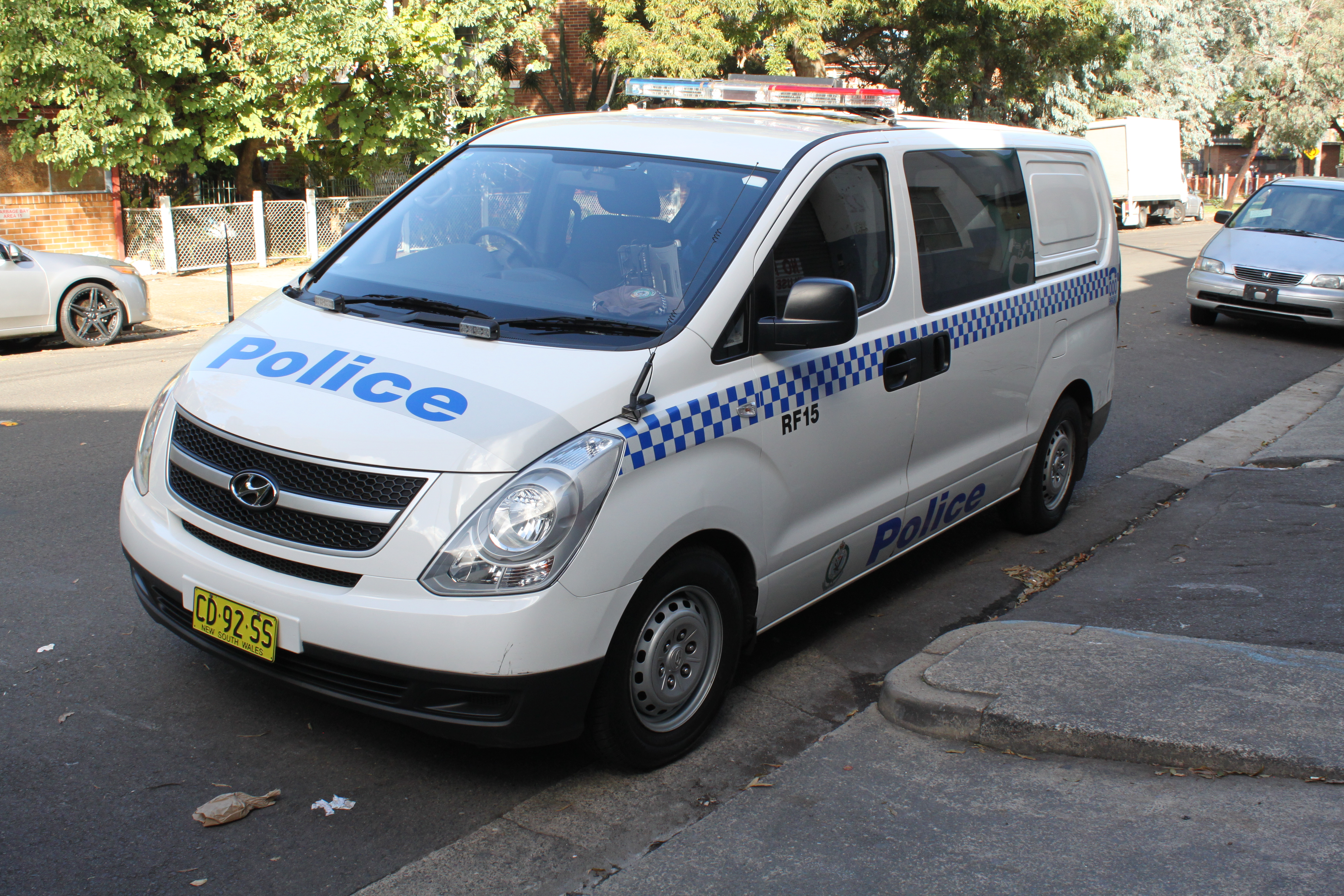 Hyundai iLoad TQ2-V NSW Police